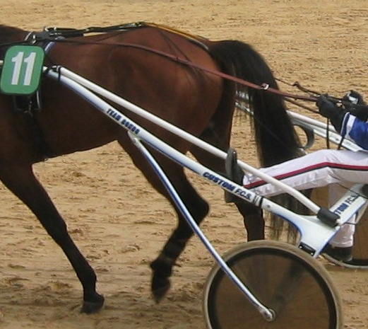 Felix del Nord and Santo Mollo in Critérium de vitesse, Cagnes-sur-Mer 2008